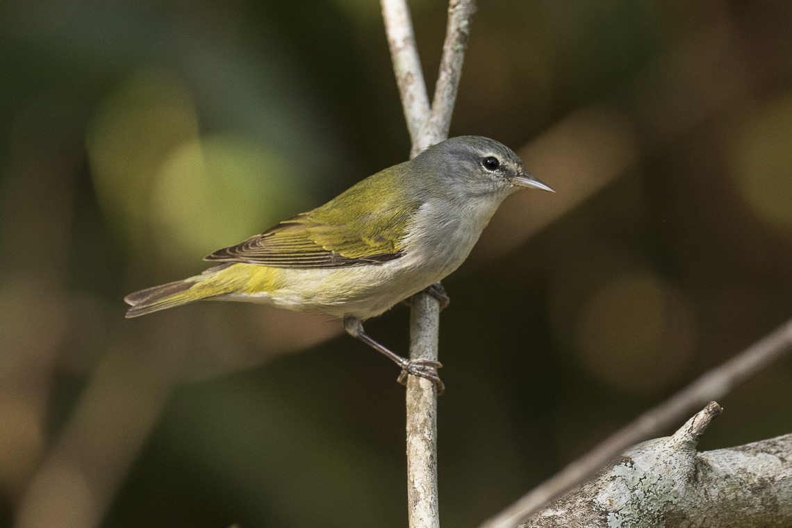 Tennessee Warbler - Talari Lodge - Costa Rica_MG_7603